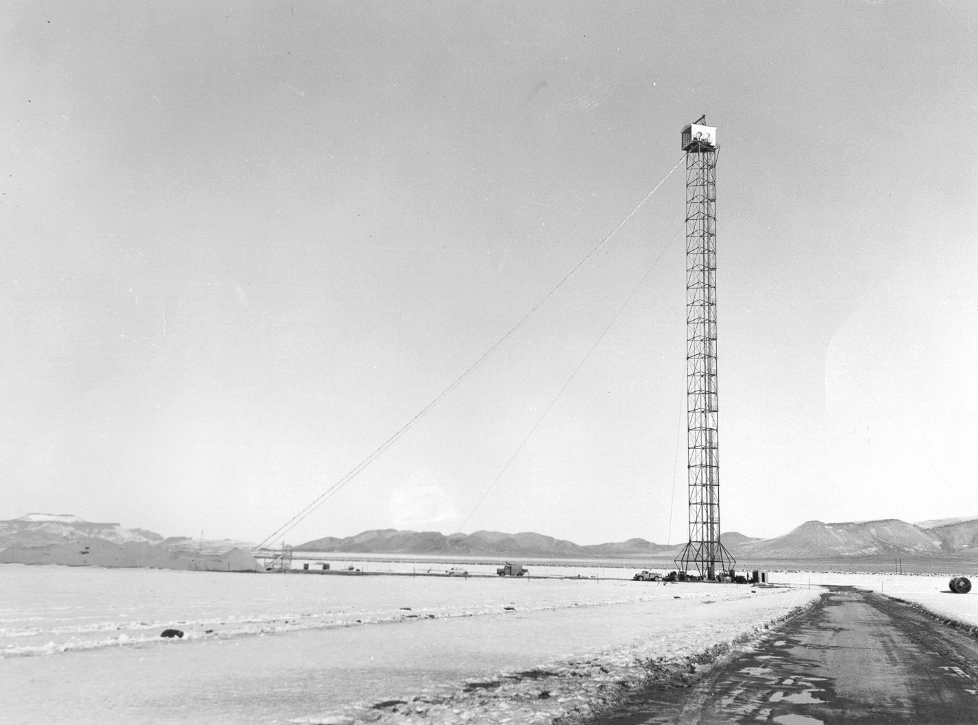 One of the 500 foot towers being used in the 1955 Continental Test Series.